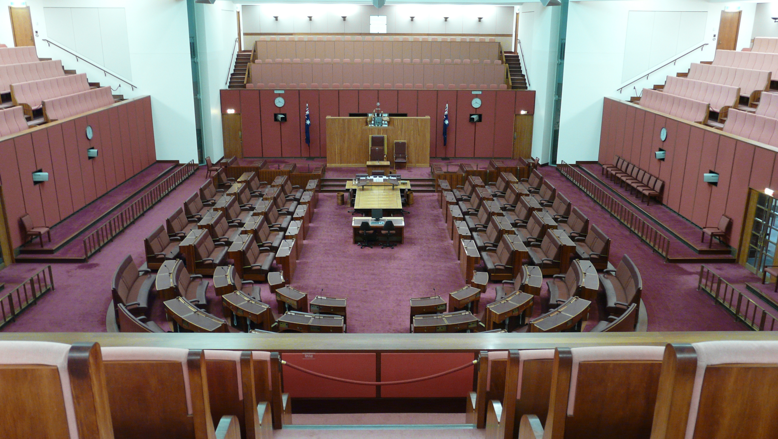 Senate, Parliament House, Canberra